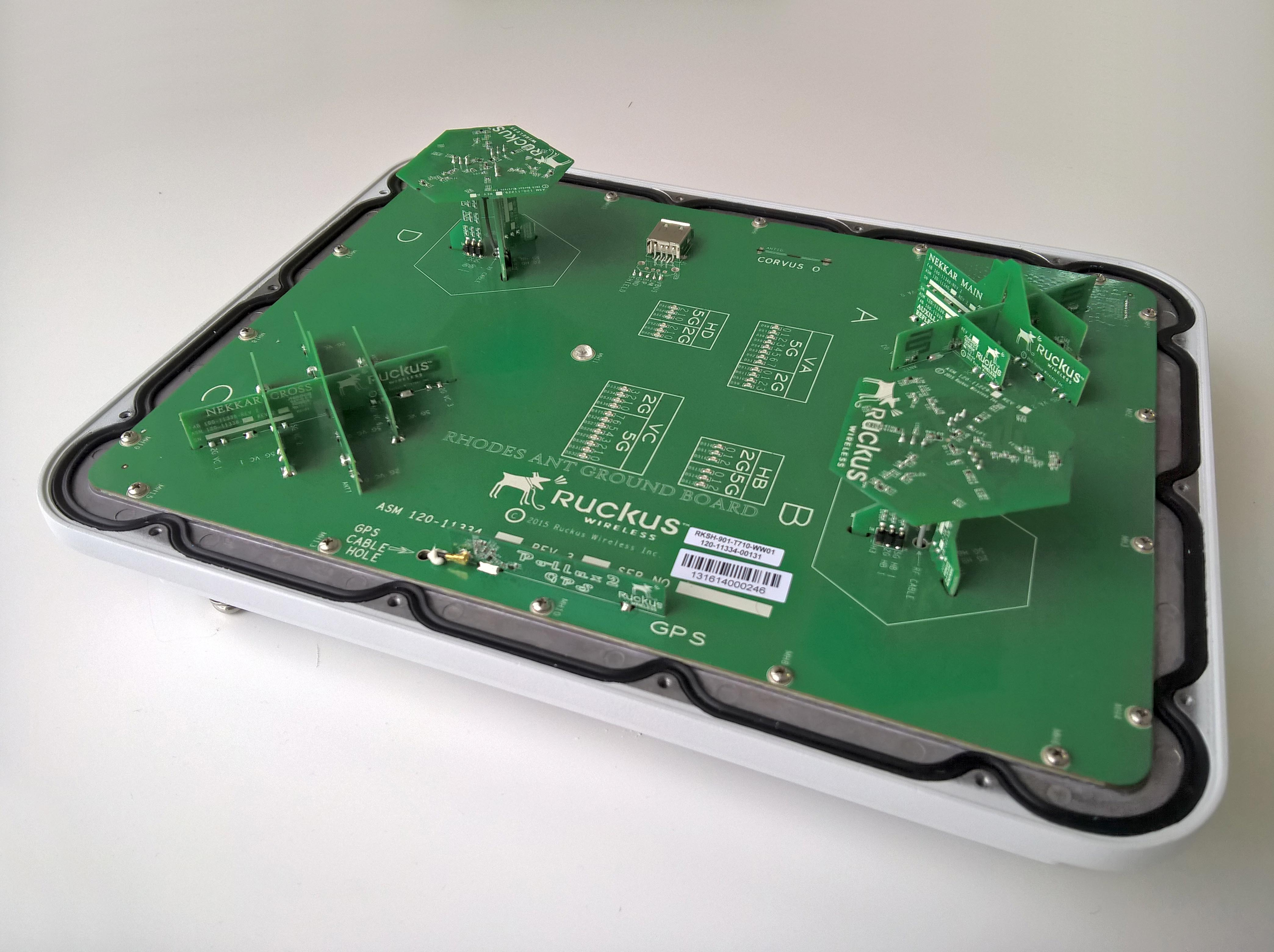 Antennas of Ruckus Wireless ZoneFlex T710, outdoor access point, concurrent dual-band 802.11abgn/ac, 4x4:4 streams, BeamFlex+